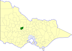 Location of the Shire of Bet Bet within Victoria.